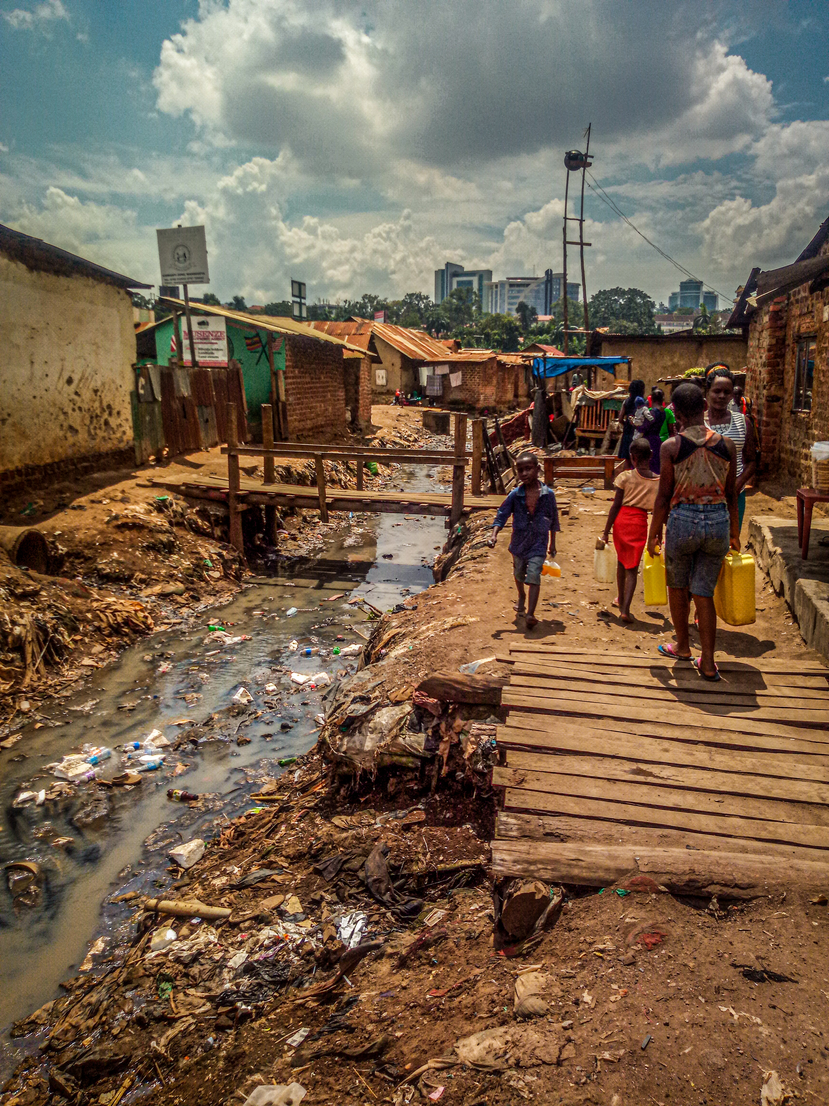 Walking over in fills and bridges build by the residents to ease transportation amidst the vast number of streams and drainage channels passing through the area. This is an image with the theme "Africa on the Move or Transport" from: Uganda